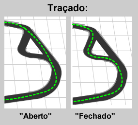 Stroke Options, of the Lane Kart Felipe Massa